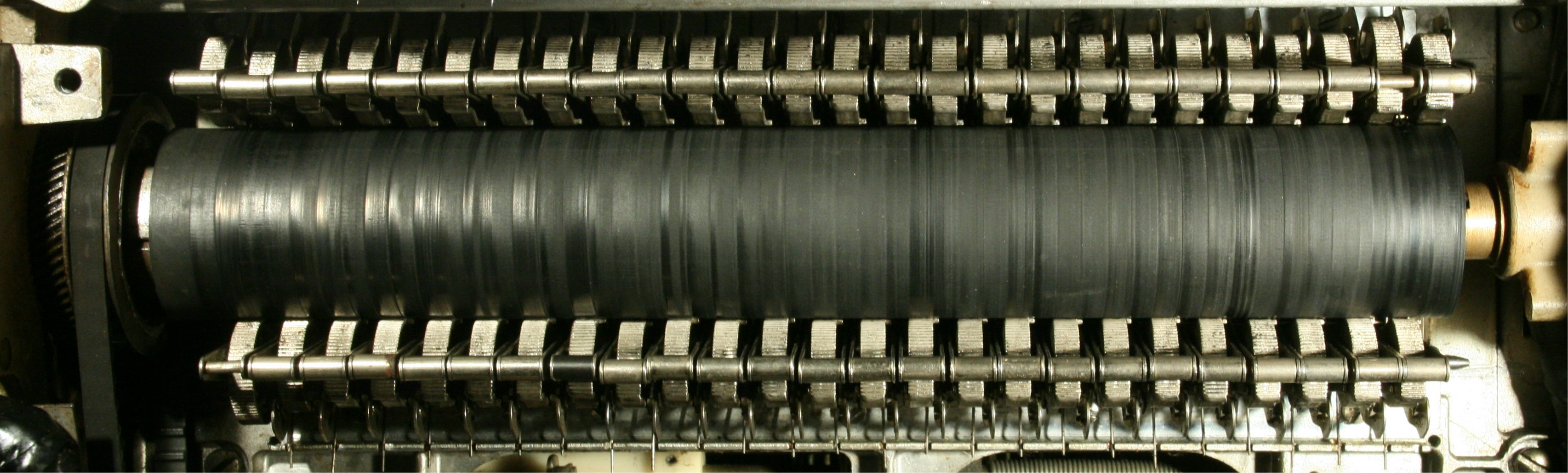 Friden Flexowriter. The power roll is the large rubber roller that continually spins, two rows of cams surround and engage on it.